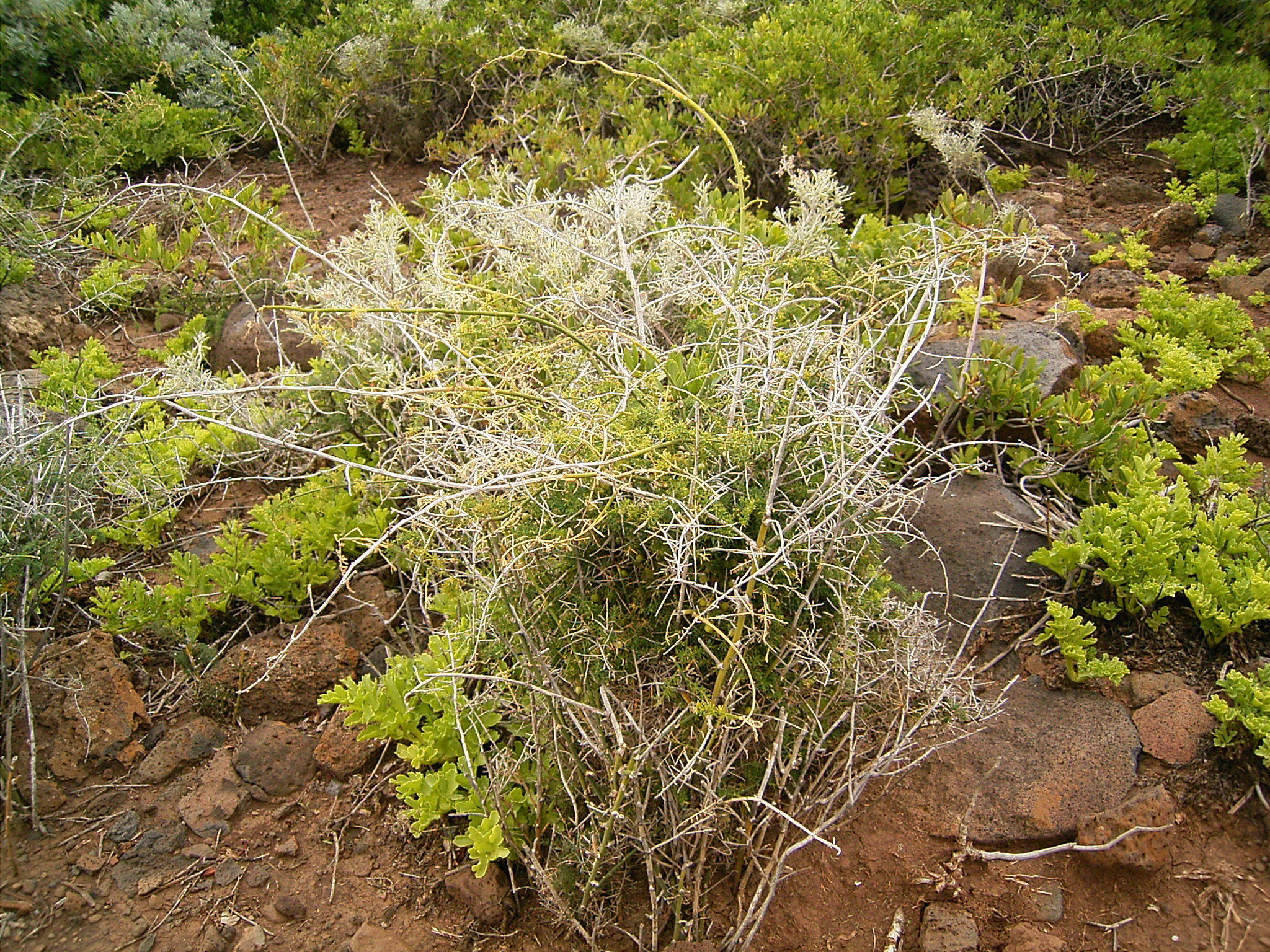 Asparagus umbellatus growing in La Fajana, Barlovento, La Palma, Canary Islands